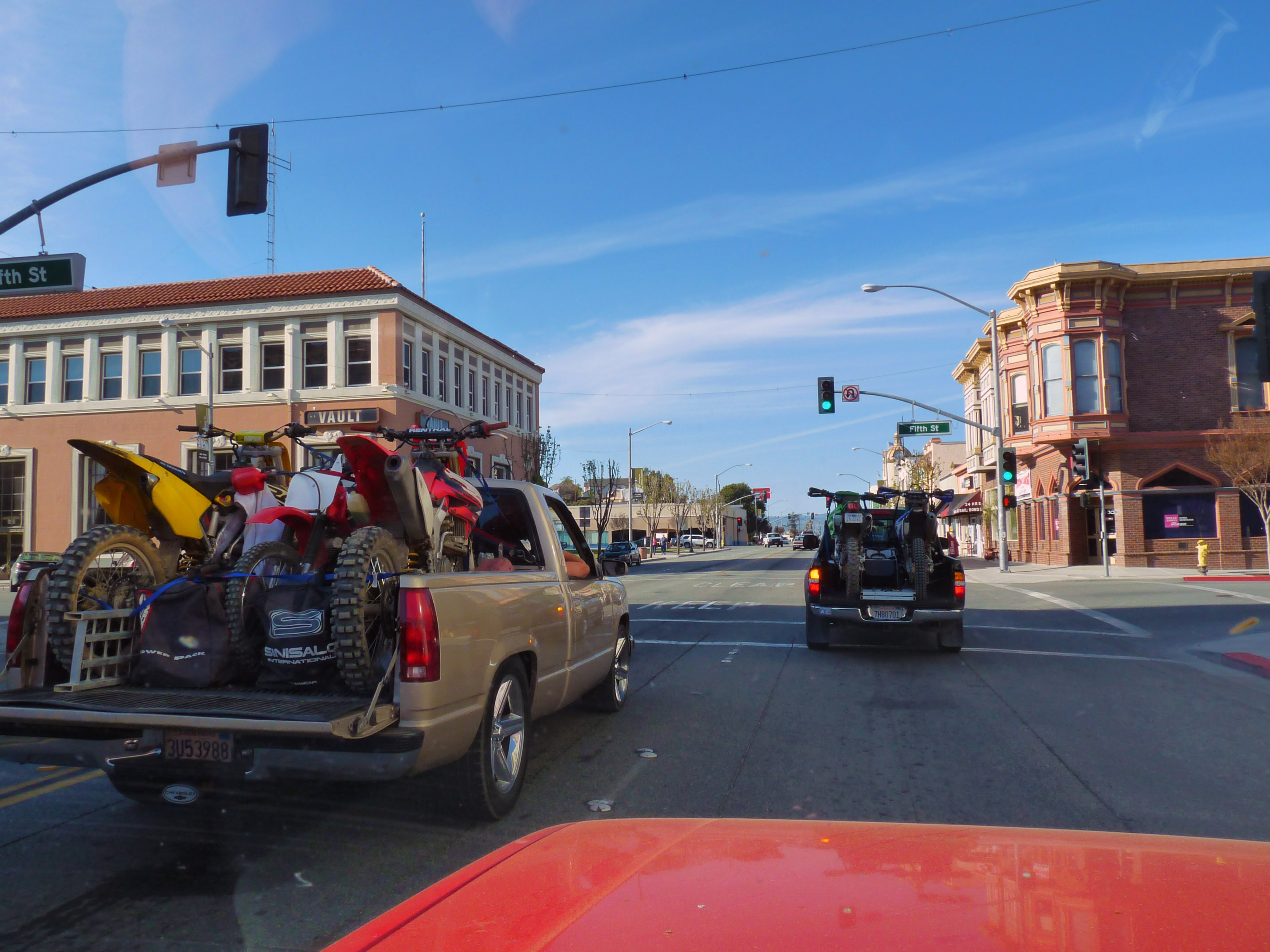 Downtown Hollister, California near Fifth and San Benito streets.